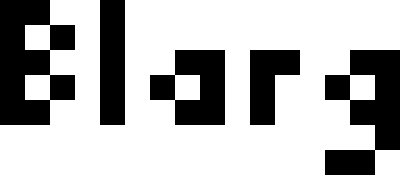 XPM2 example rendered by XnView and saved as PNG